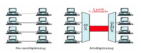 mux and don't mux